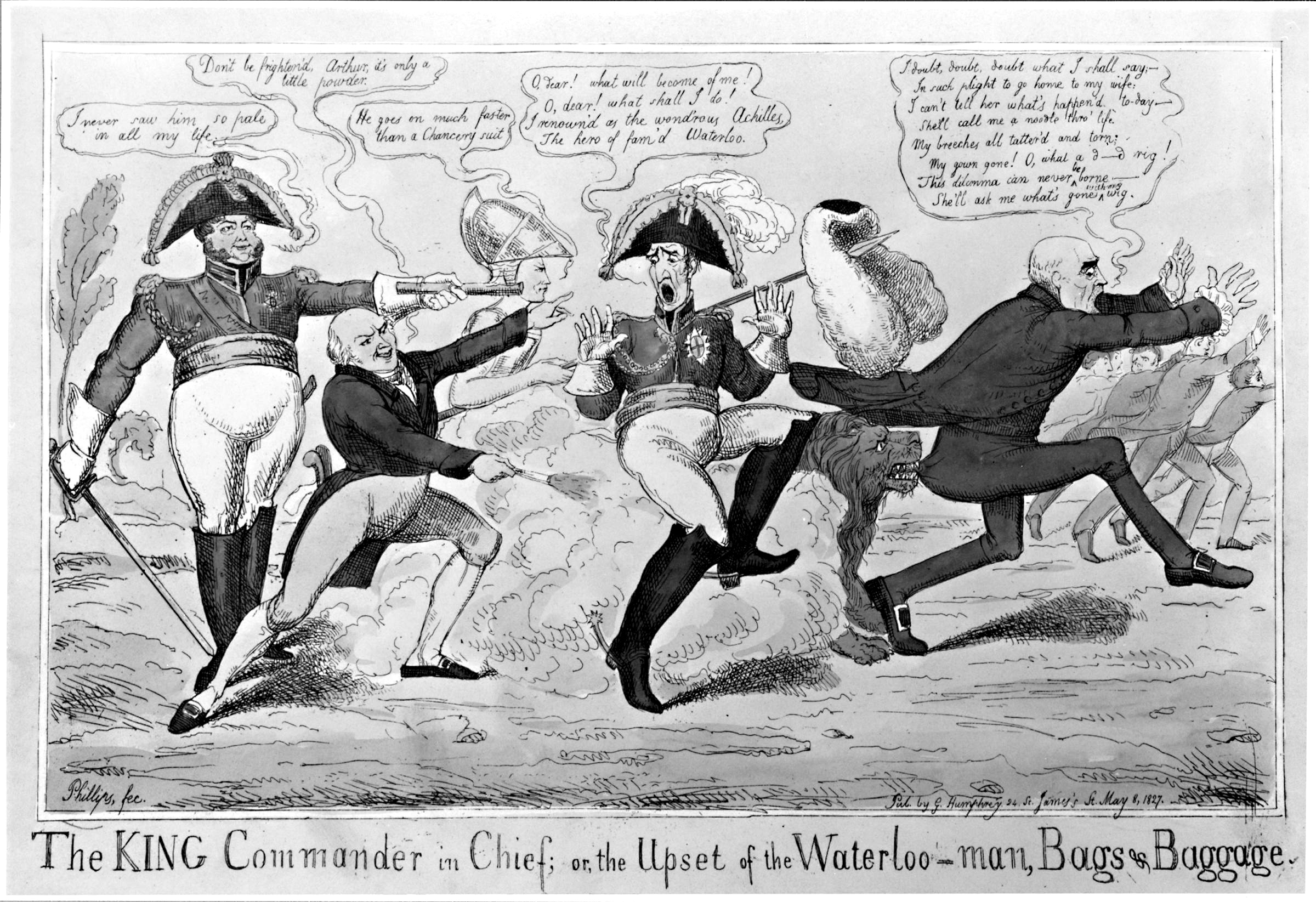 This description is for the initial mass upload, and they will be updated to be image-specific in a second pass by a bot. According to the NPG's website the work was published prior to 1859, and so the author is reasonably presumed dead by 1939.